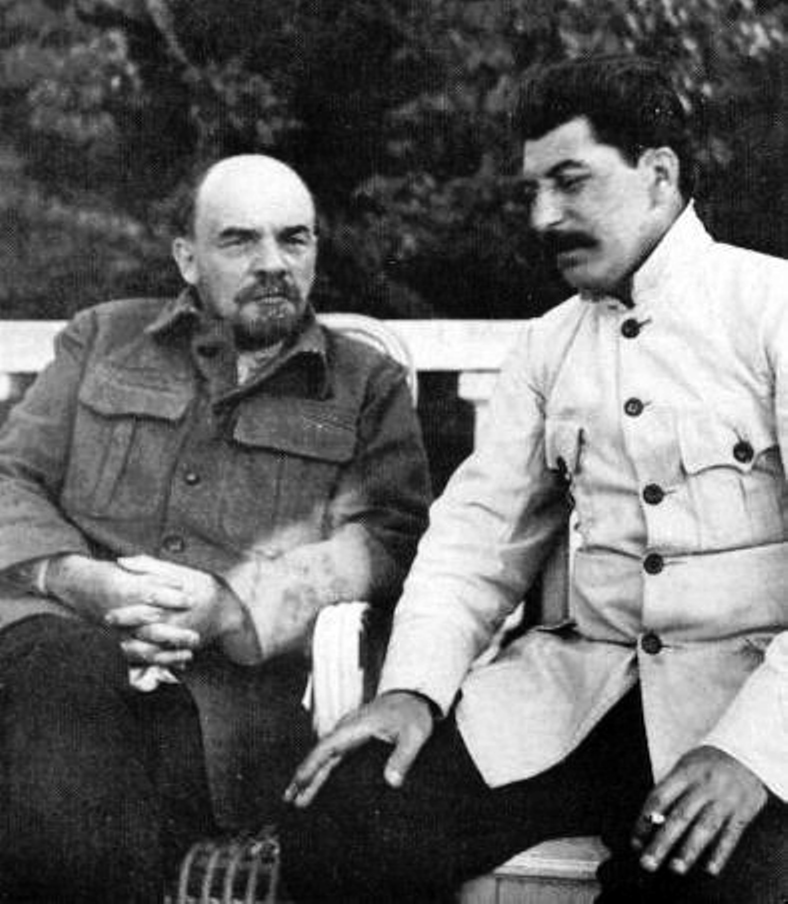 One of the several photographs (File:19220900-lenin stalin gorky-02.jpg, File:19220901-lenin stalin at gorki.jpg) of Lenin and Stalin in Gorki in September 1922, taken by Maria Ilyinichna Ulyanova.